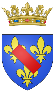 Coat of arms of the Prince of Condé